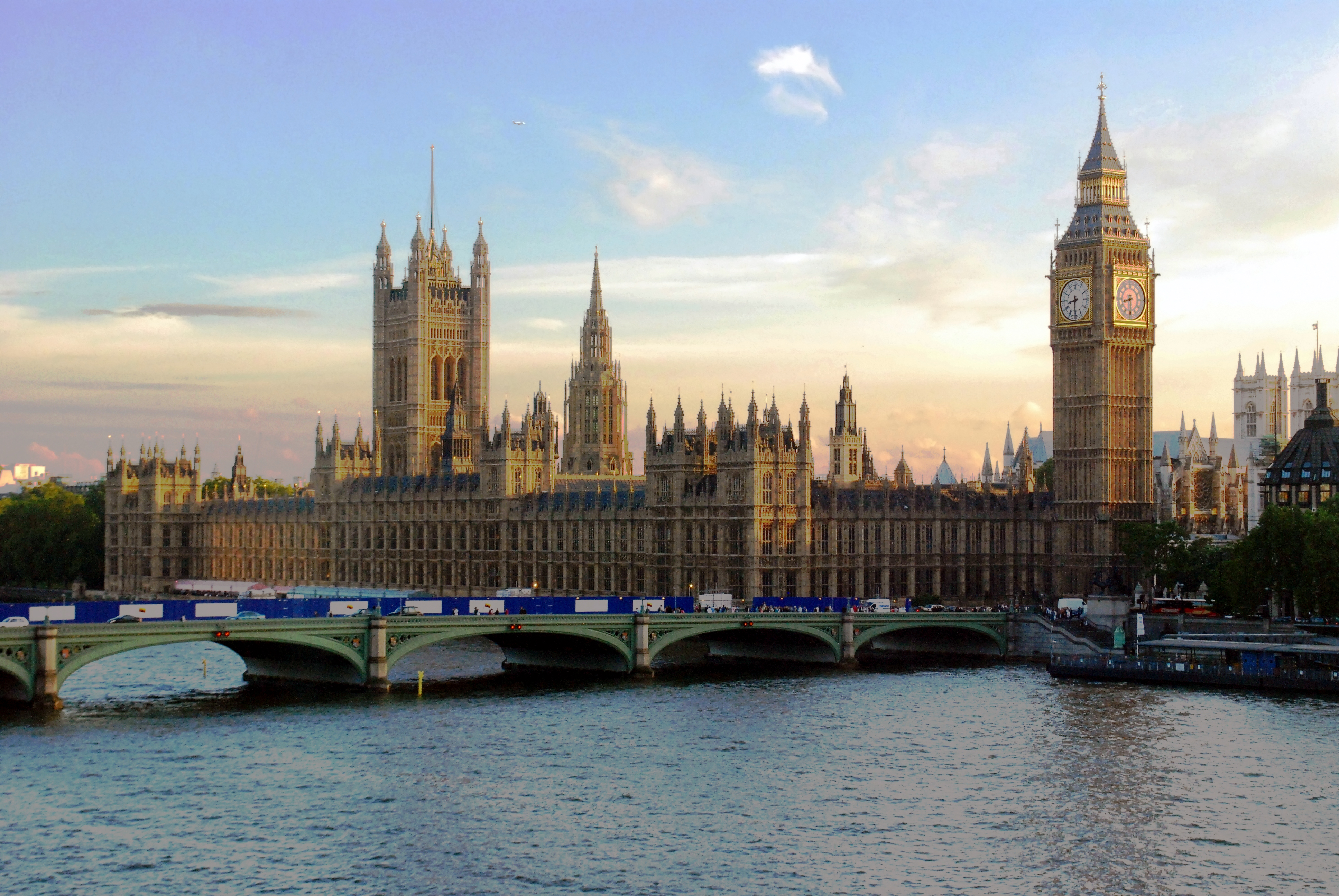 The Palace of Westminster in London, the meeting place of the Parliament of the United Kingdom.